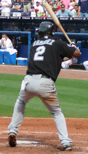 I took this photo on June 5, 2007 06:25, 8 June 2007 . . Chrisjnelson . . 178×311 (111,469 bytes)